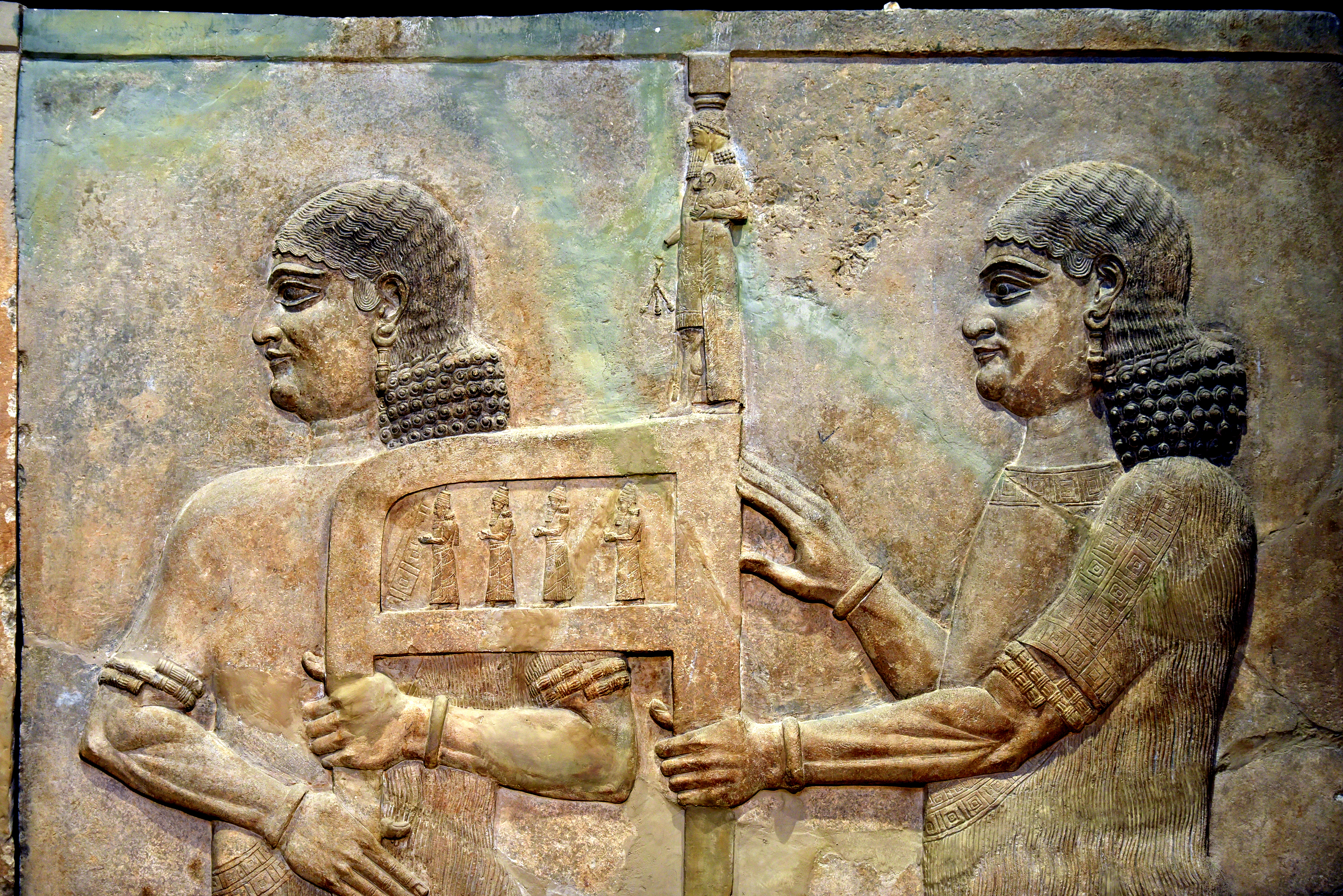 Assyrian eunuchs carrying Sargon II's throne. Part of a long tributary scene where Sargon II receives tribute from Urartu (modern-day Armenia). Detail. Alabaster-bas relief from the Royal Palace at Khorsabad, Ninawa Governorate, Iraq. Late 8th century BCE. The Iraq Museum in Baghdad.